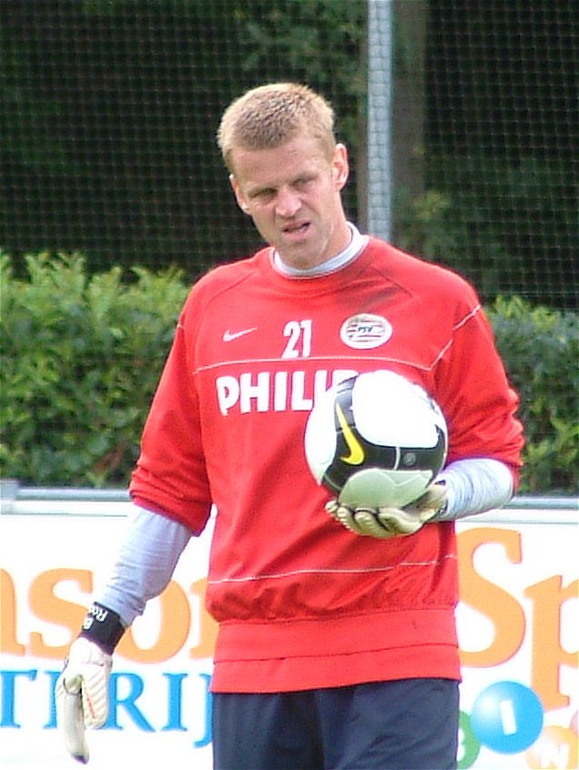 Bas Roorda